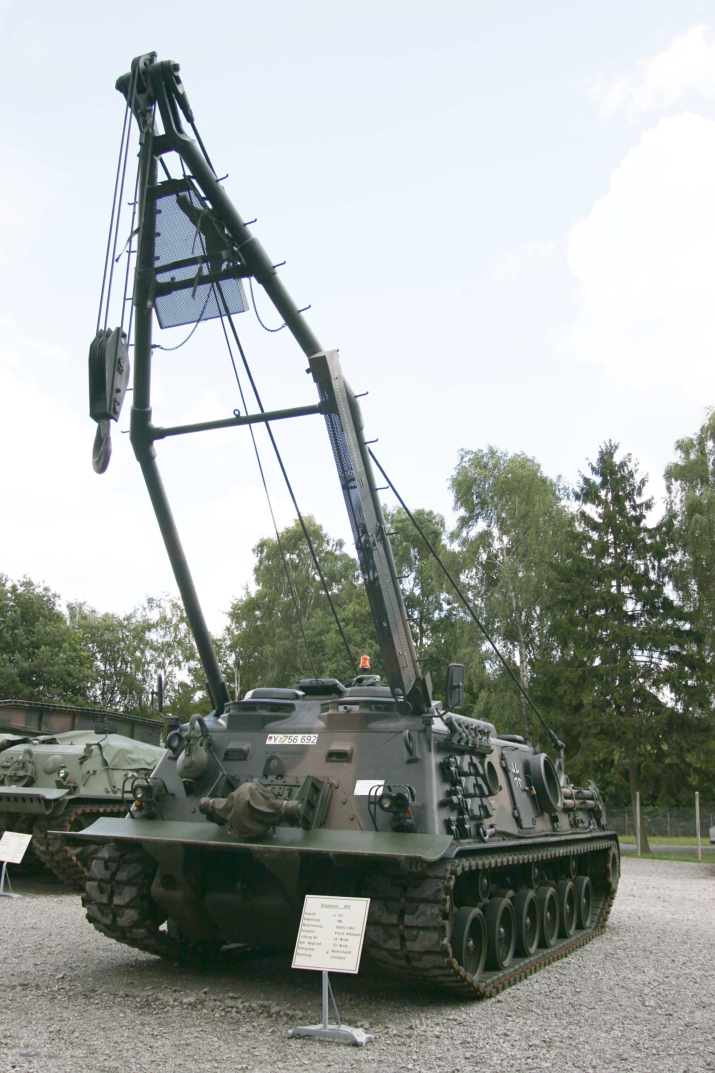 M88 Armored Recovery Vehicle on display at the Deutsches Panzermuseum Munster , Germany.